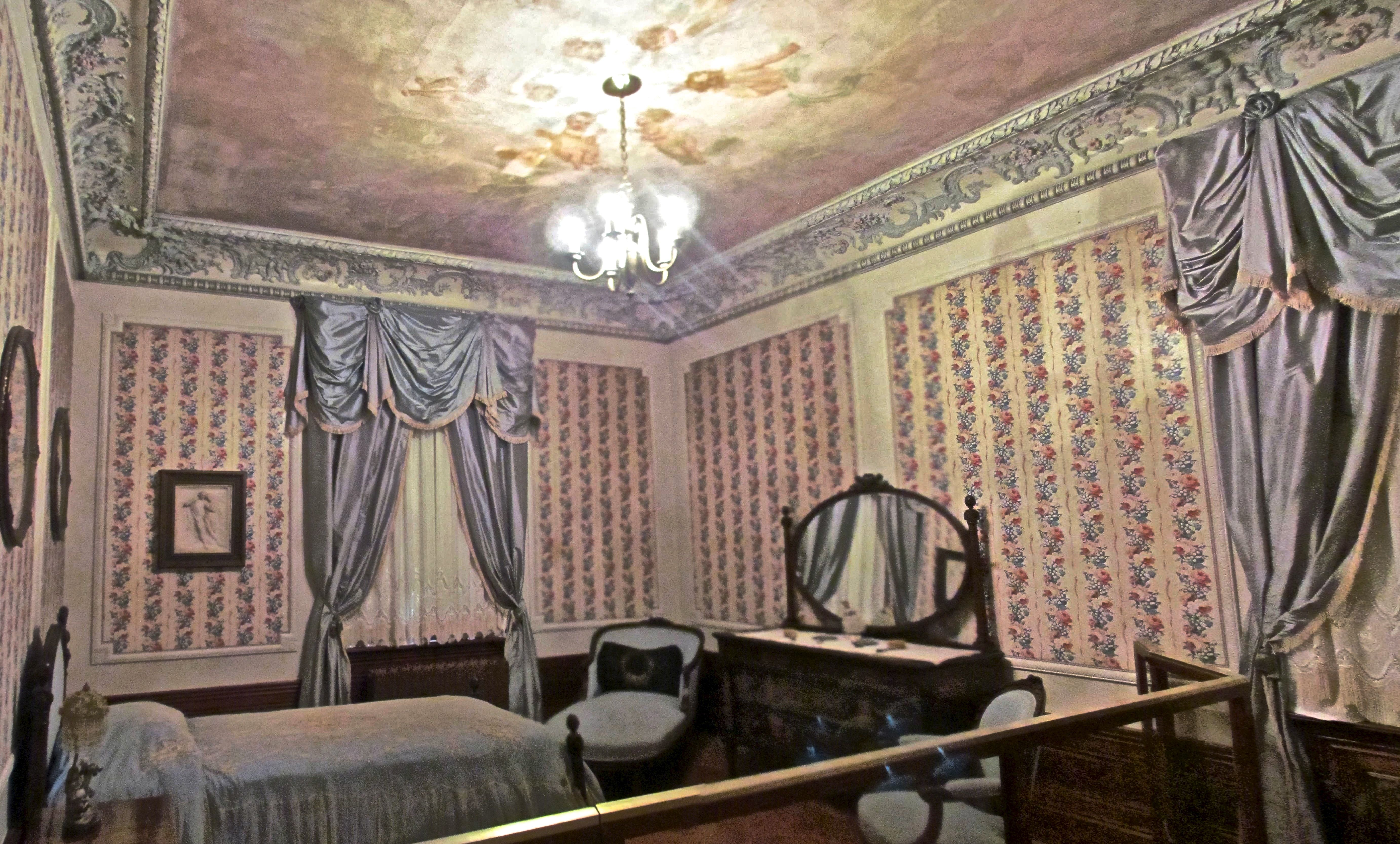 Laurette Dufresne's Bedroom, Oscar Dufresne House (Château Dufresne), 4040 Sherbrooke Street East, Montreal, Quebec, Canada.